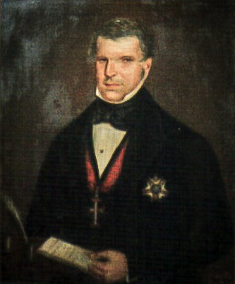 Custódio Ferreira Leite, Baron of Aiuruoca (Brazil, 1782-1859)